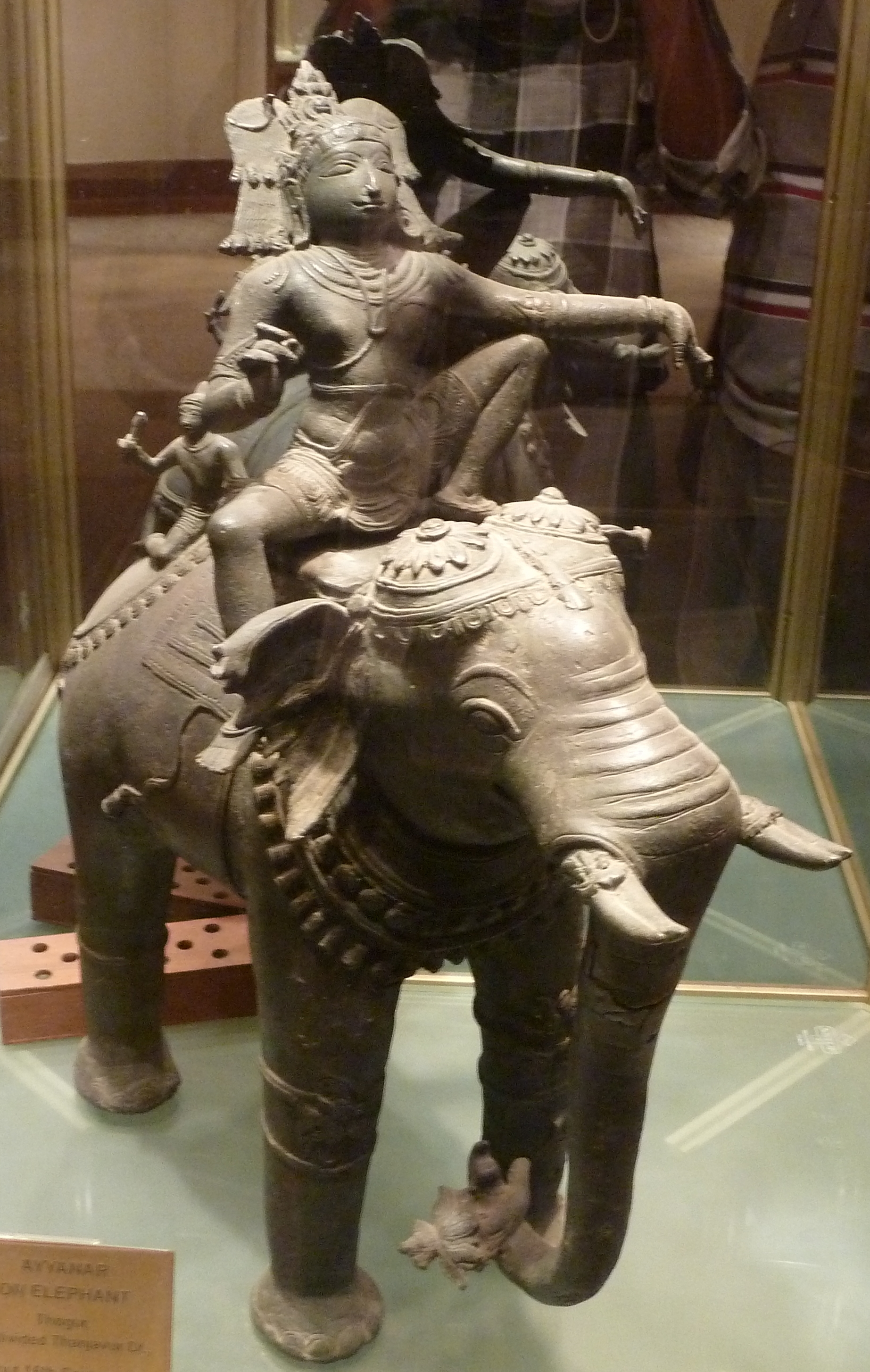 Ayyanar on elephant Thogur, undivided Thanjavur district. About 16th century. Kept in display at Government Museum, Chennai